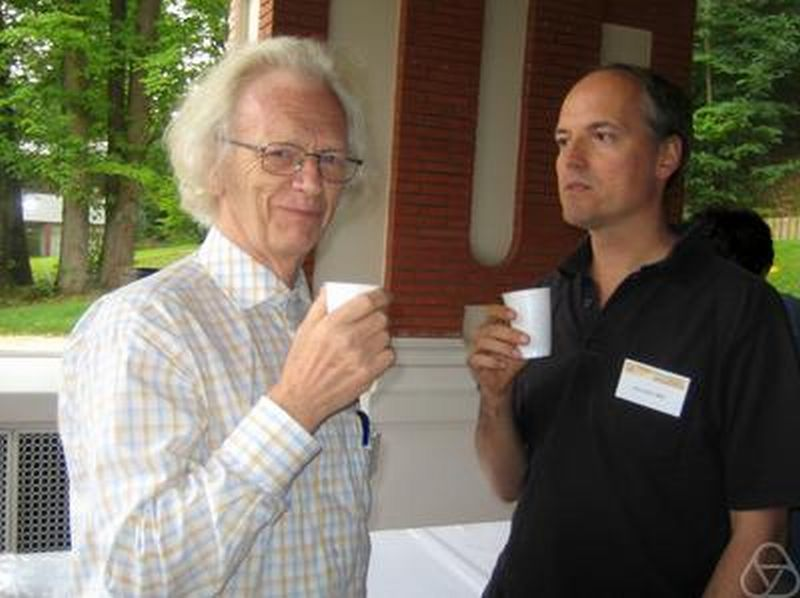 Hermann Karcher (left) with Christian Bär (right), Bure-sur-Yvette 2007